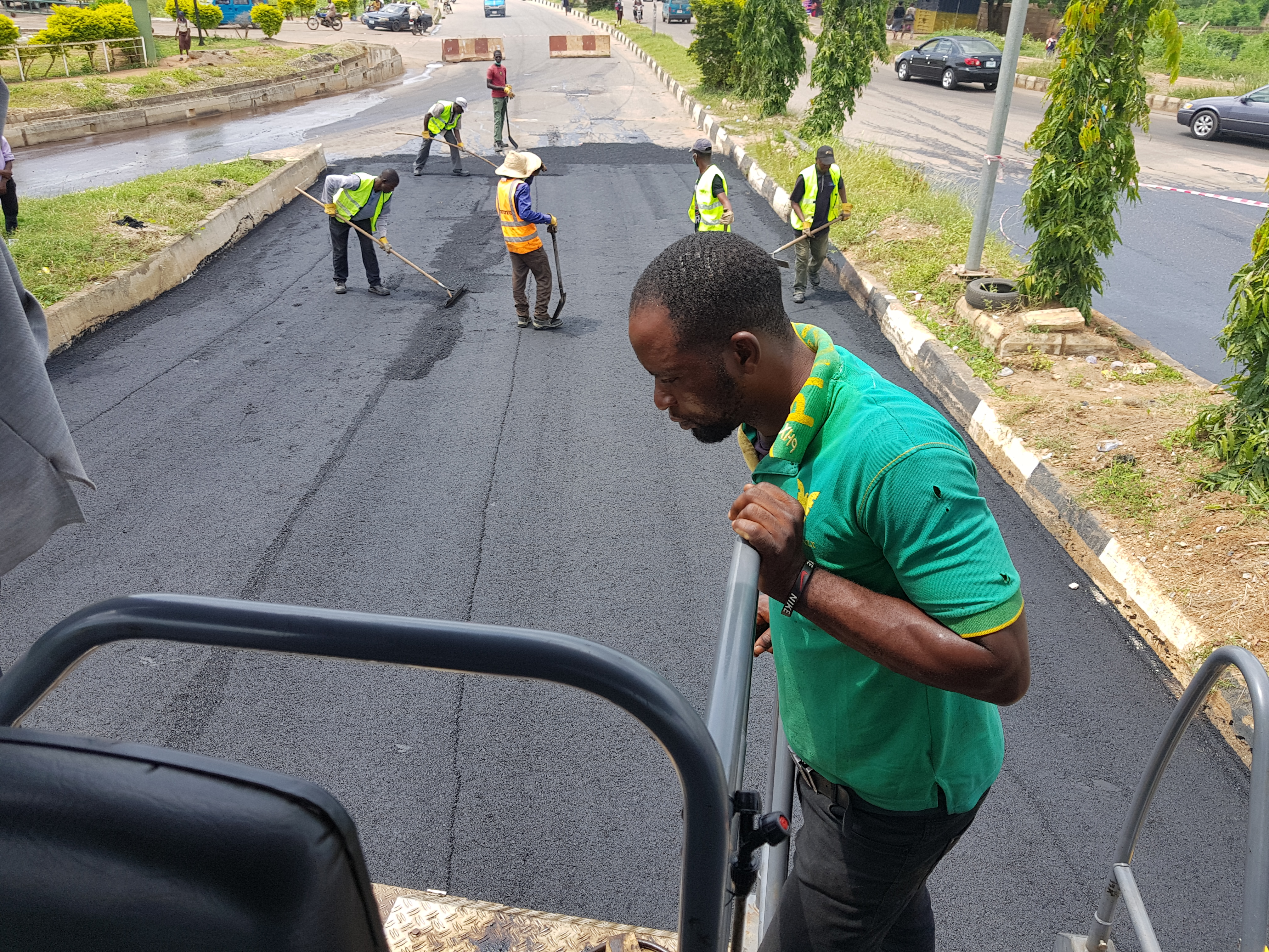 Laying Asphalt This is an image of "African people at work" from Nigeria